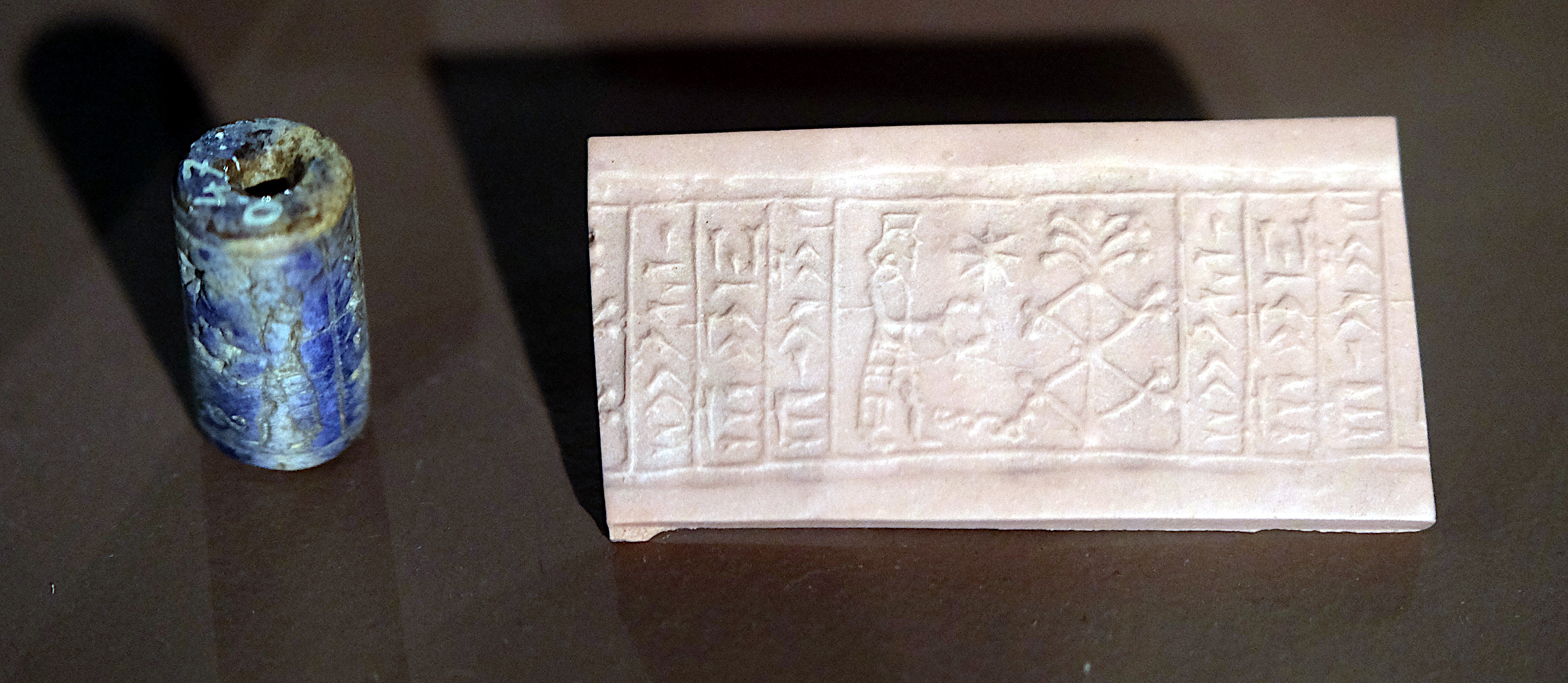 Cylinder-seal with the representation of the myth of Etana. Archaic dynasty (2800 BC - 2450 BC) This piece is one of 450 antiques from the Gustave Hagemans (1835 - 1908, a dilettante Egyptologist) collection. It is one of those brought by the collector during a trip to the Levant.